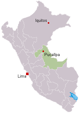 Map of the plane crash in Peru on 23 August 2005. This image is literally rough around the edges, and I invite anyone to fix that in a newer version.